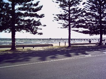 Digital Photo of Altona Beach, Altona (Melbourne suburb), Victoria, Australia Photographer: Brendan Kosowski (myself)